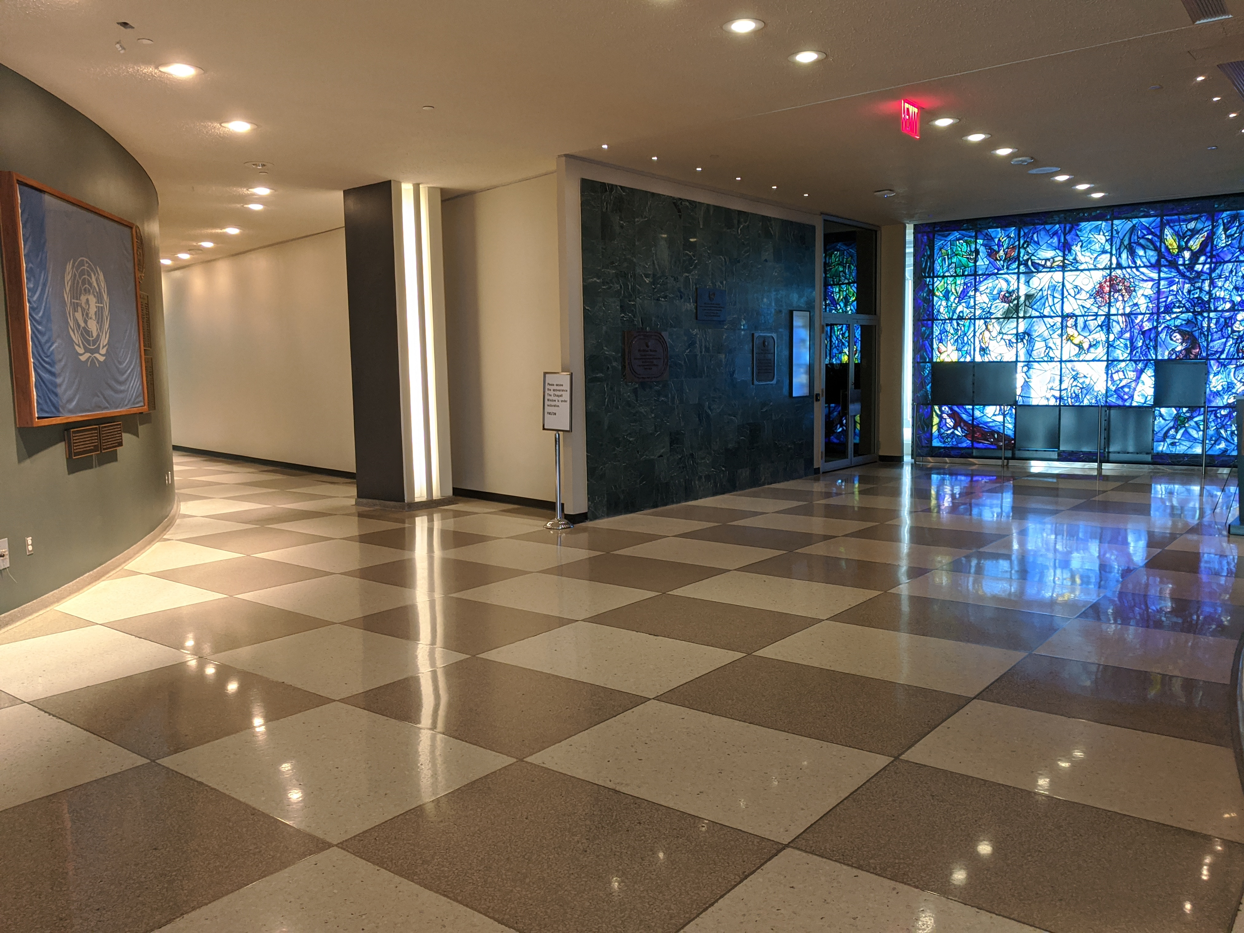 Meditation room on the first floor of the General Assembly Building